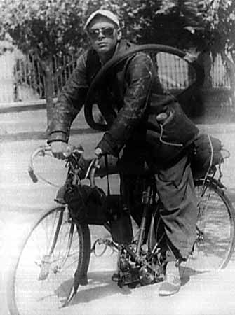 A 22 year old Ernesto Guevara setting out out on a solo motorbike trip through the northern rural provinces of Argentina.